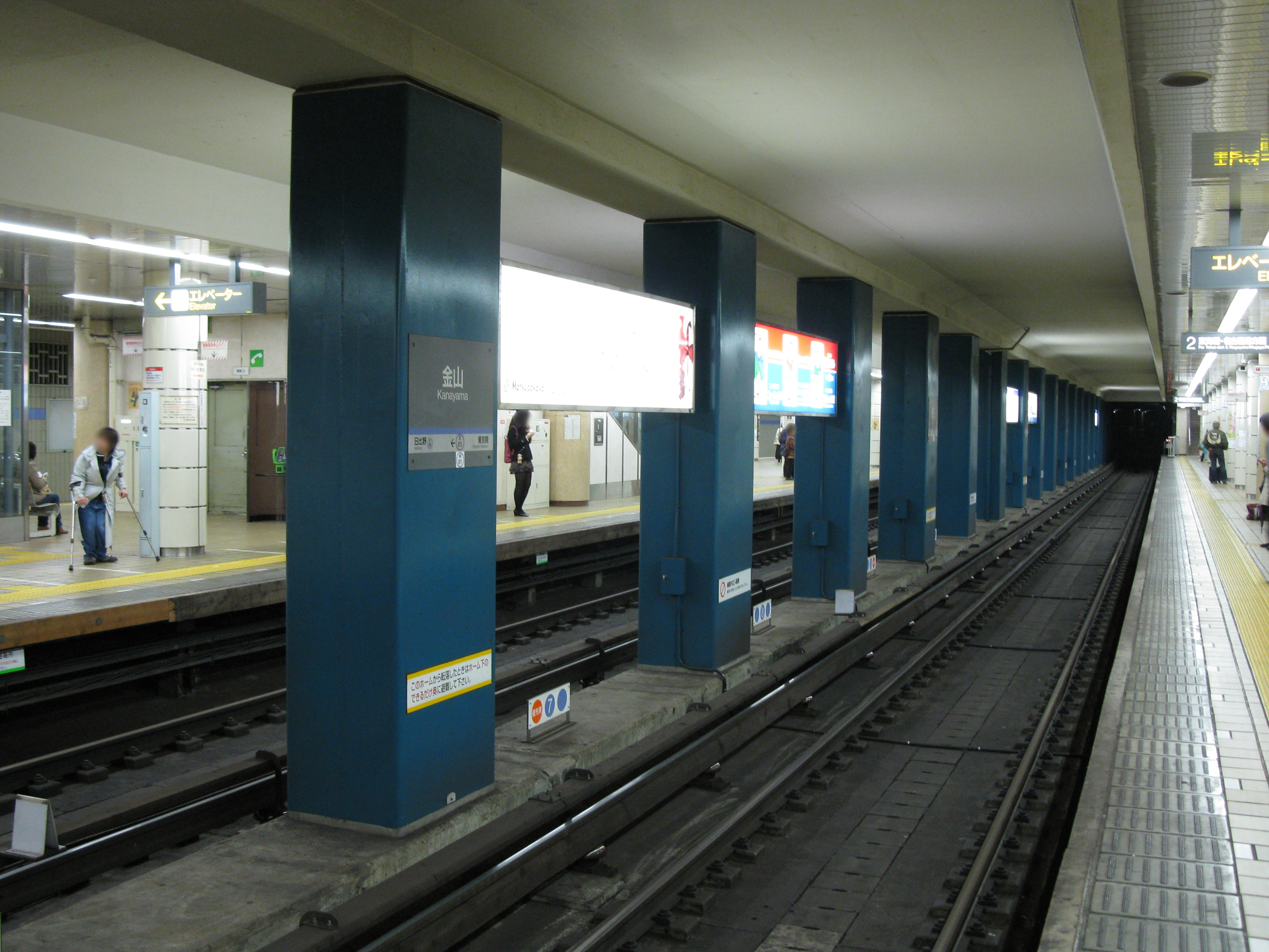 Kanayama Station no.2 and no.3 platform (Nagoya Municipal Subway Meijō Line and Meikō Line)